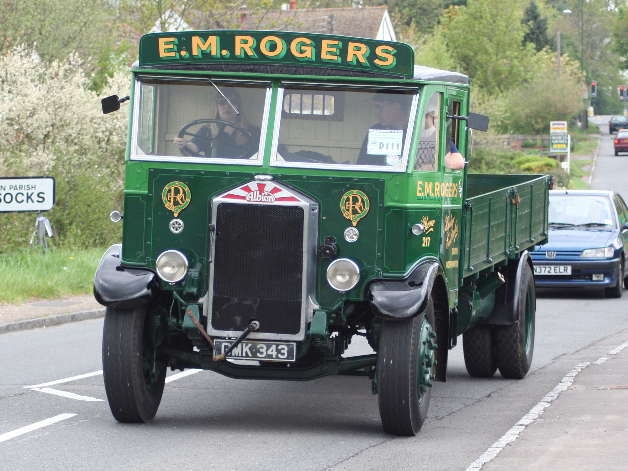 Albion type 550spl, 1936